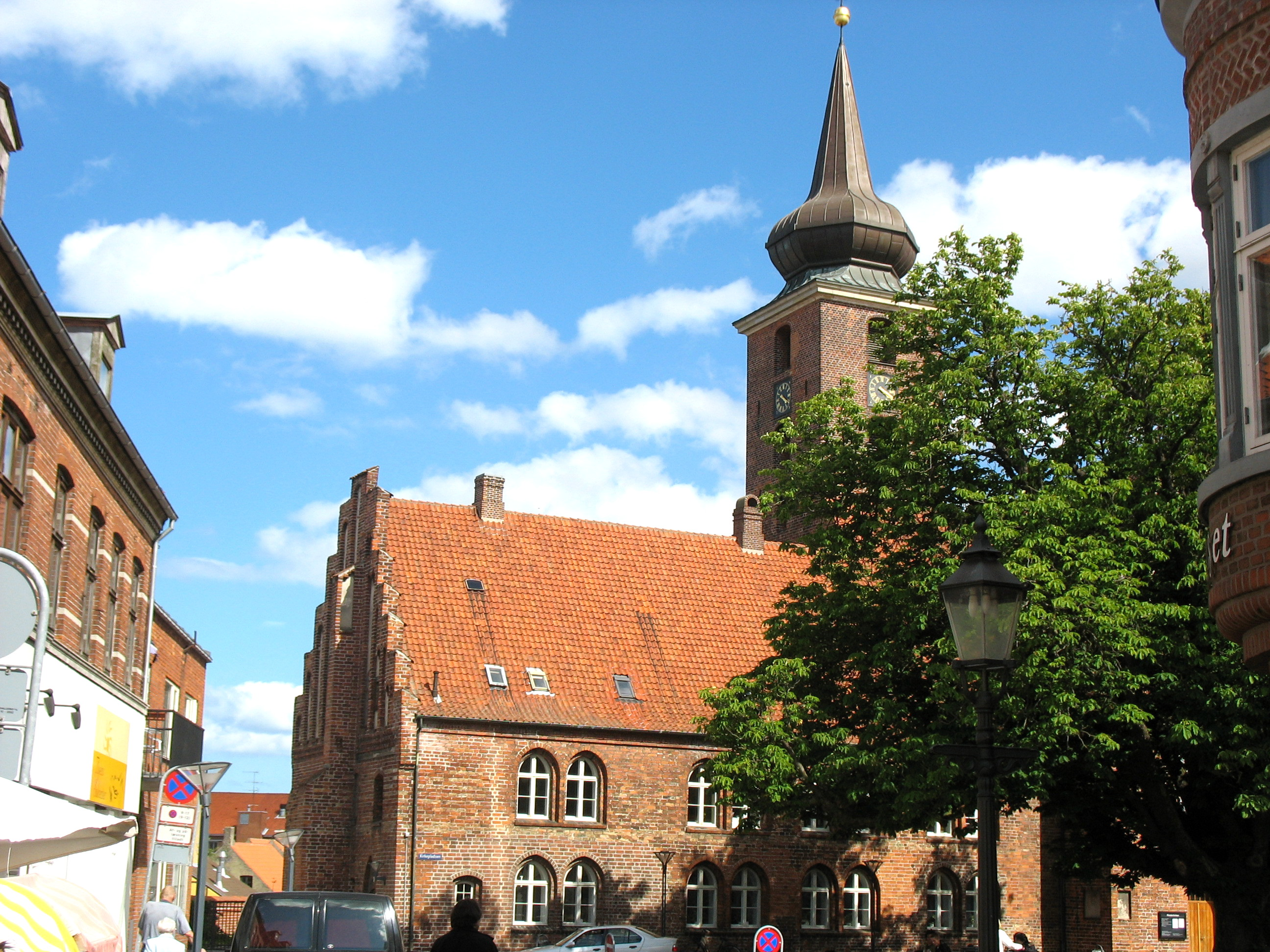 The old abbey church "Klosterkirken" in the town "Nykøbing Falster". It is located on the island Falster in east Denmark.